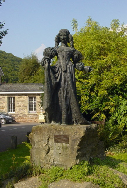 The Lorna Doone statue, Dulverton, Somerset The heroine of R D Blackmore's novel set in Exmoor. The statue was created by George Stephenson and given to the town in 1990 by an american, Dr. Whitman Pearson, She stands by the headquarters of the Exmoor National Park